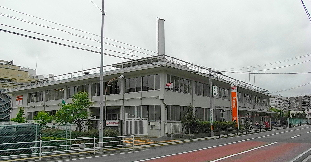 Sendai Minami Post Office - Nagamachi 7 chōme, Taihaku ward, Sendai, Miyagi prefecture, Japan. The road had been National Route 286 of Japan between 1970 and 2008.